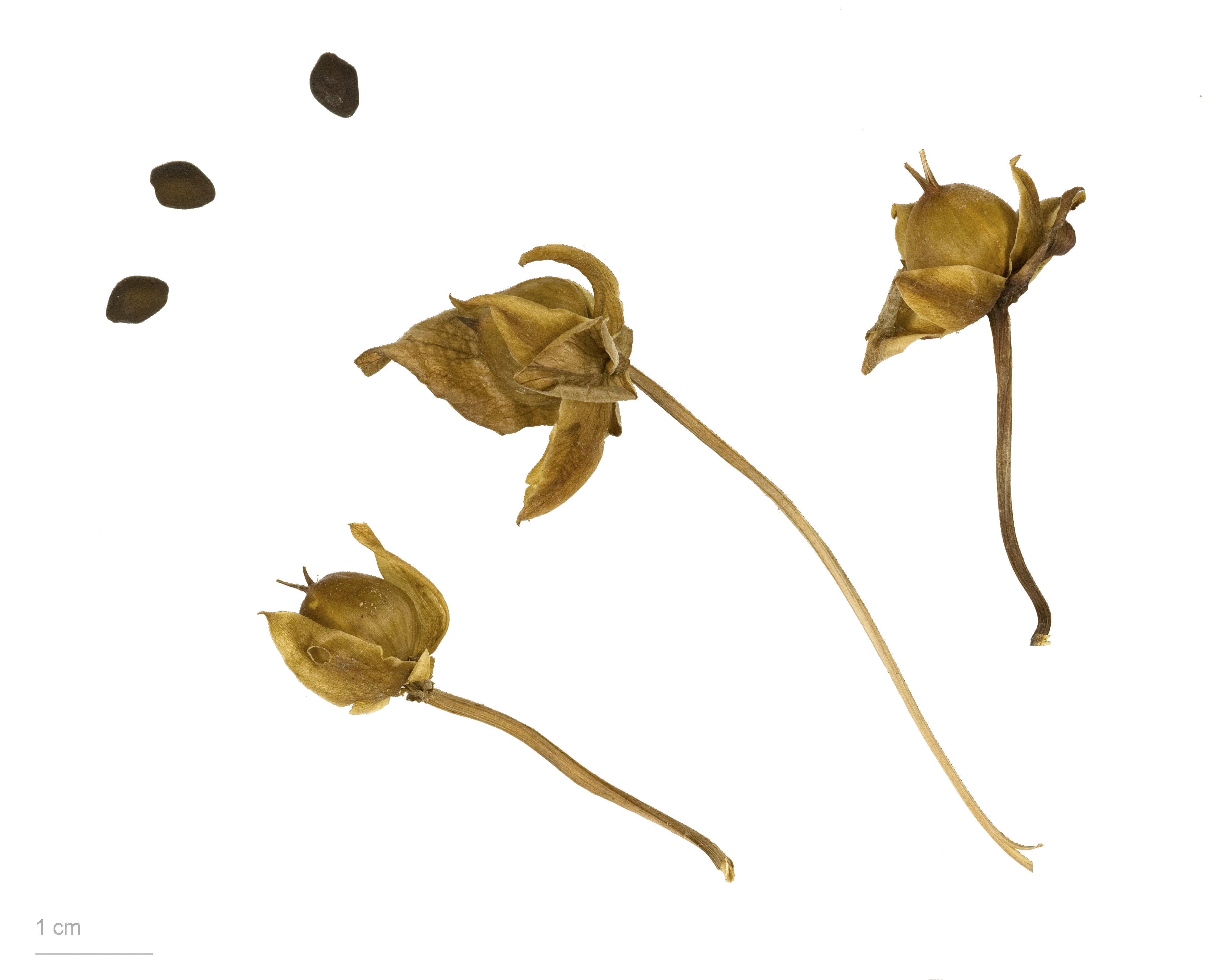 larger bindweed, fruits and seeds